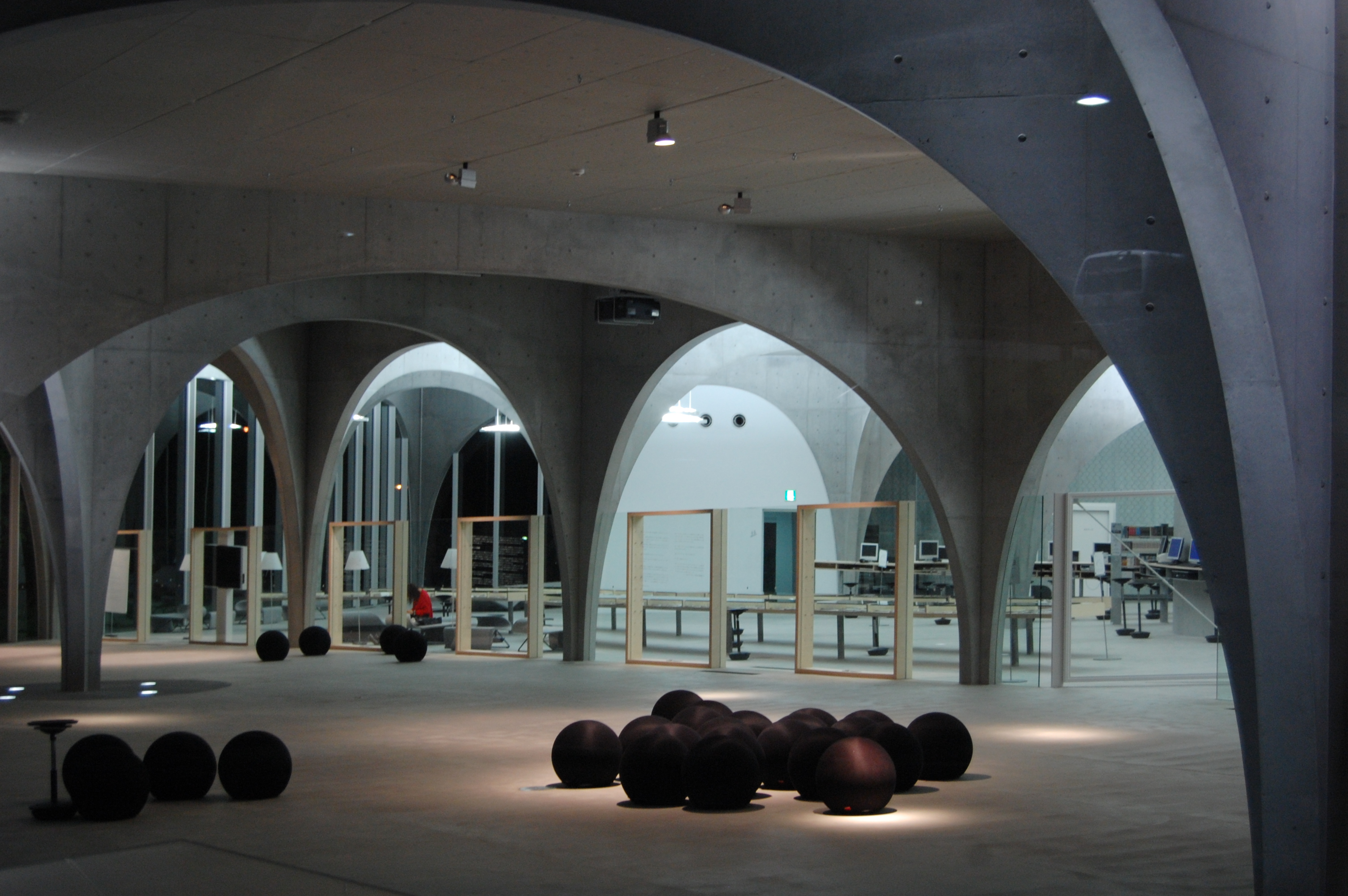 Tama Art University Library, at Hachiouji, Tokyo, Japan, designed by Toyo Ito in 2007.